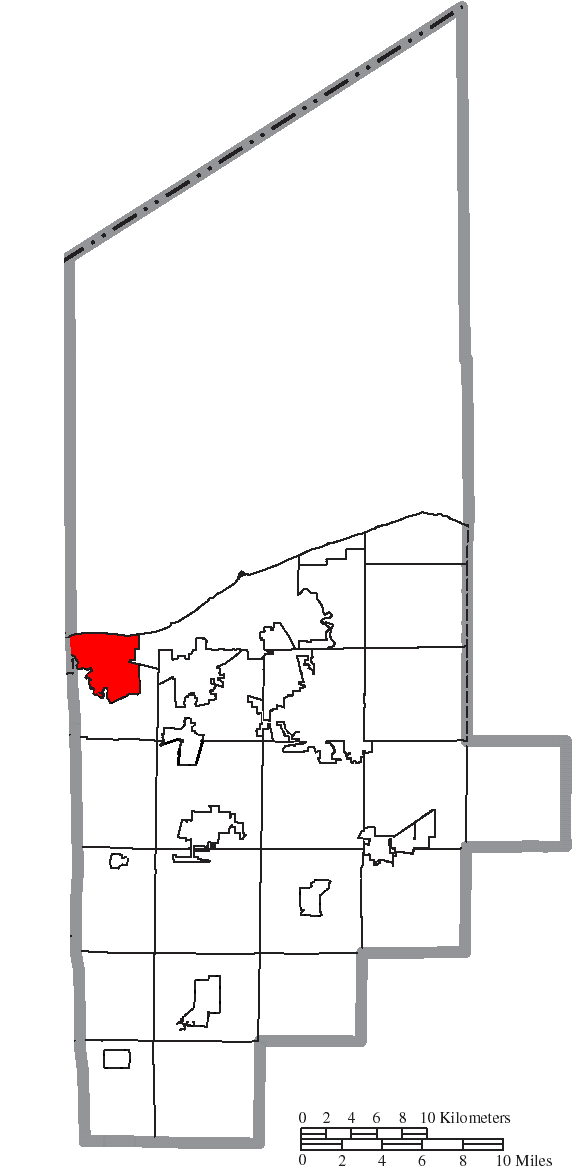 Map of the municipal and township boundaries of Lorain County, Ohio, United States, as of the 2000 census, with the location of the city of Vermilion highlighted. Township borders are shown only in unincorporated areas in order to differentiate incorporated and unincorporated areas more clearly.